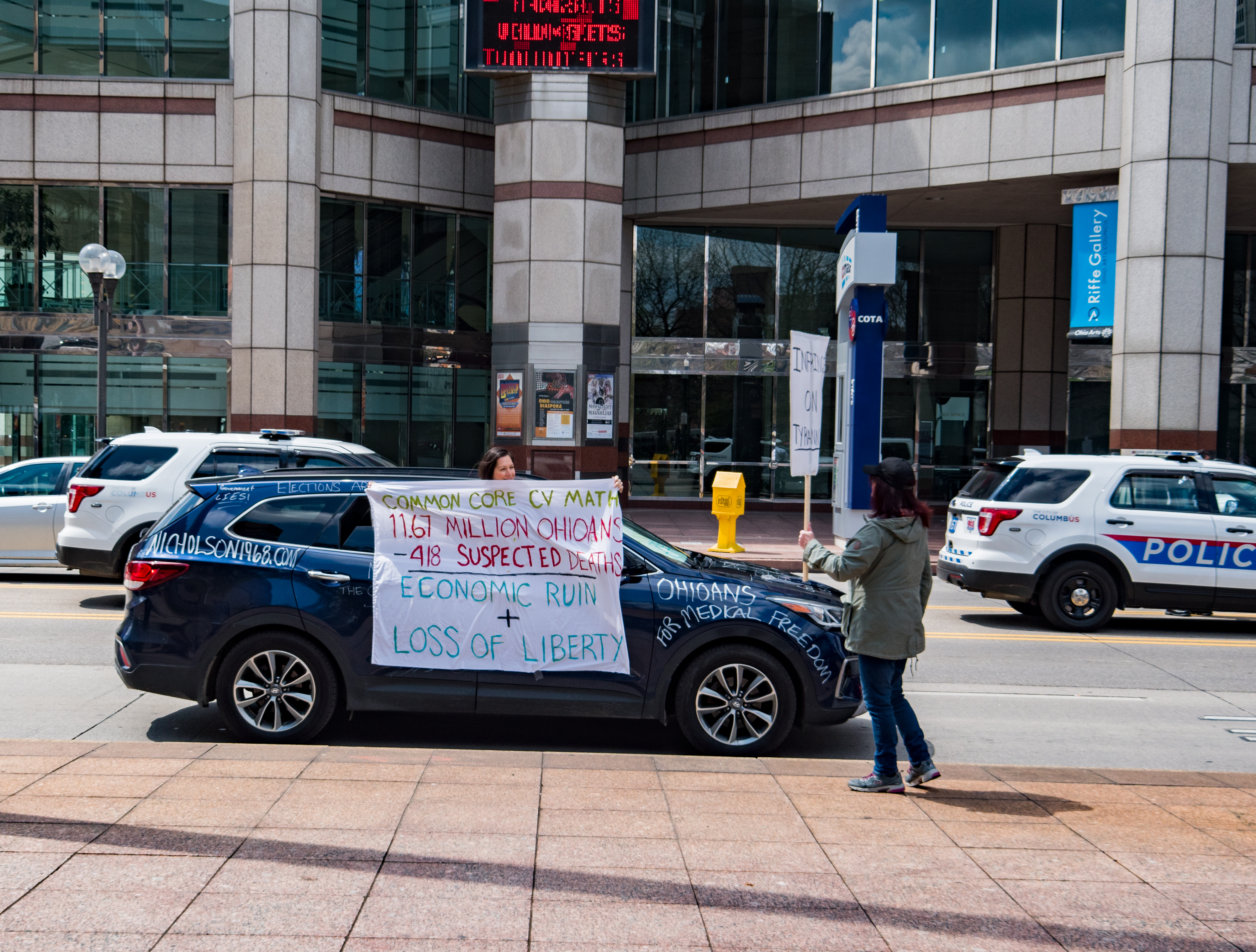 Columbus coronavirus protests at the Ohio Statehouse, 2020-04-18.